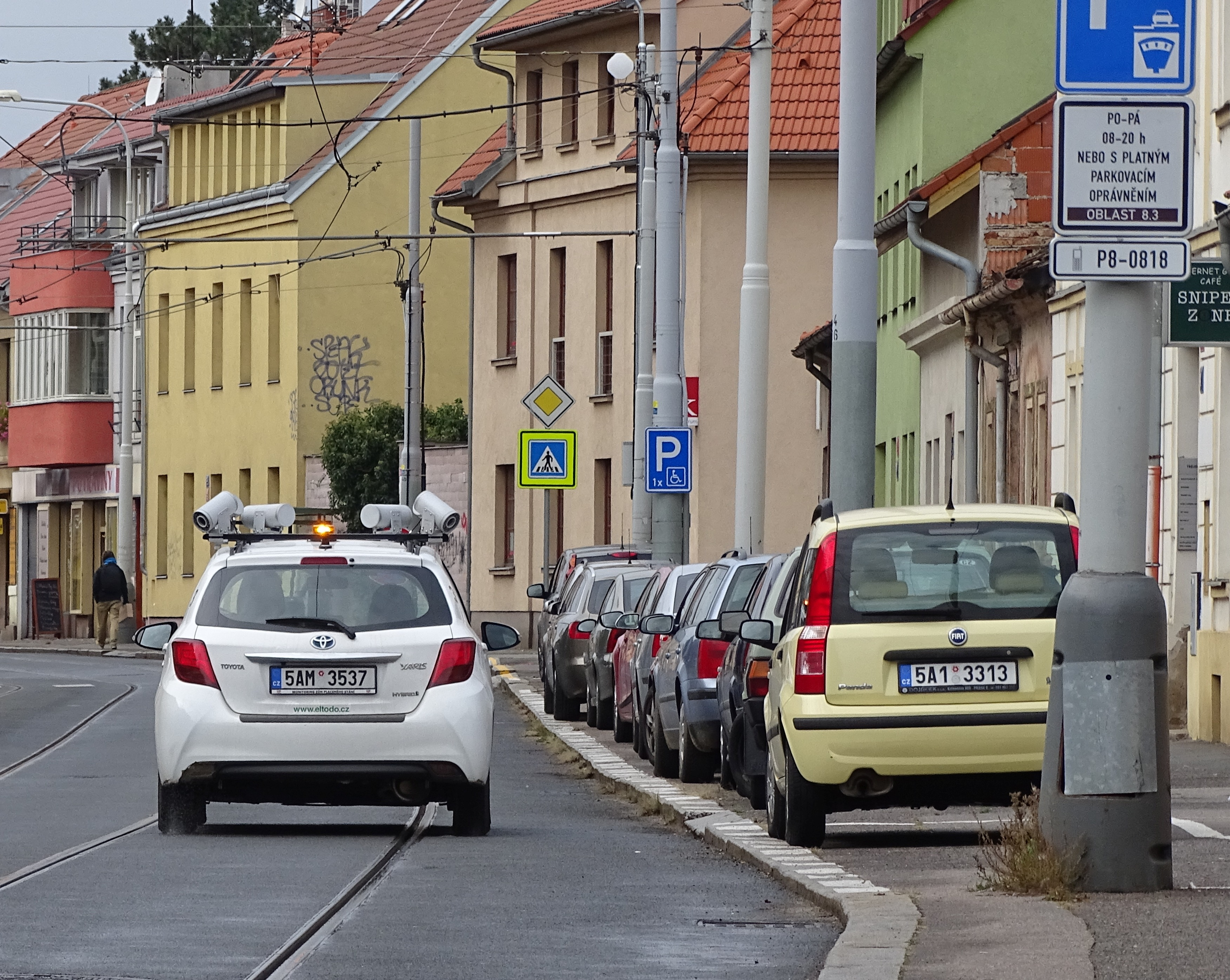 Prague-Kobylisy, Czechia. Trojská street, a parking-monotoring camera car of Eltodo company.